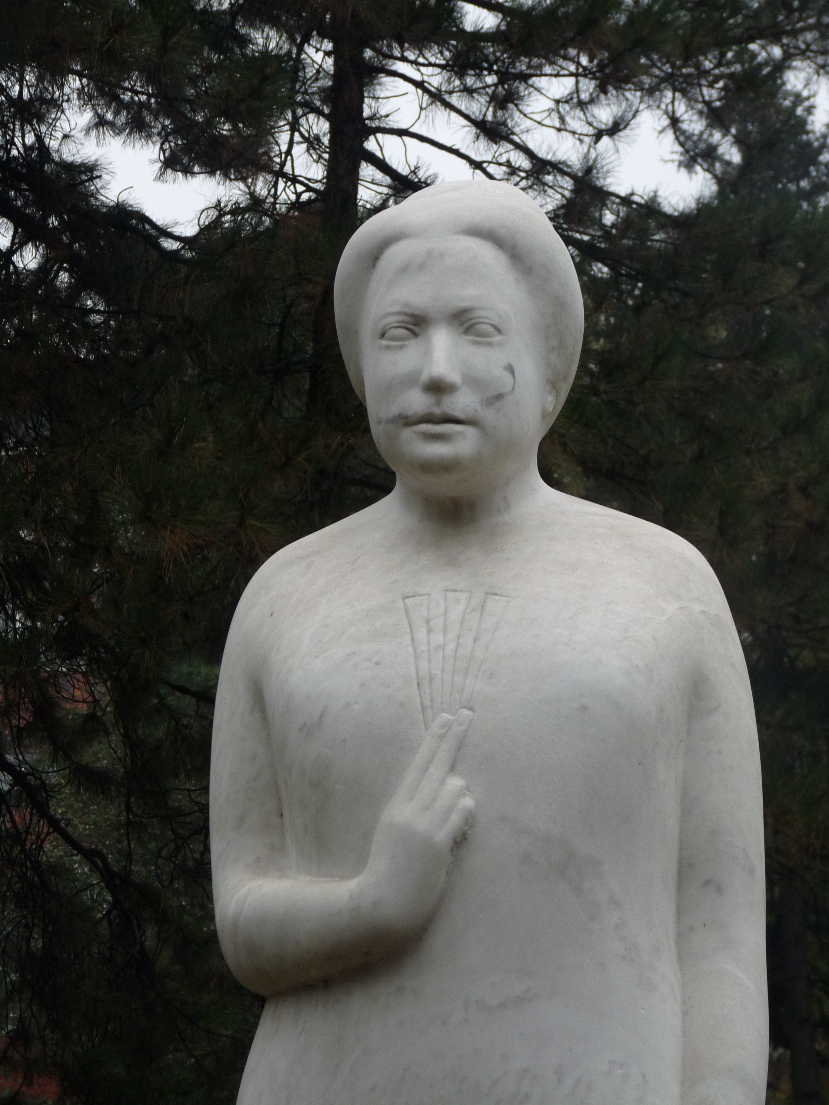 Sculpture of Nadežda Petrović in Pionirski Park in Beograd (face), October 13, 2012